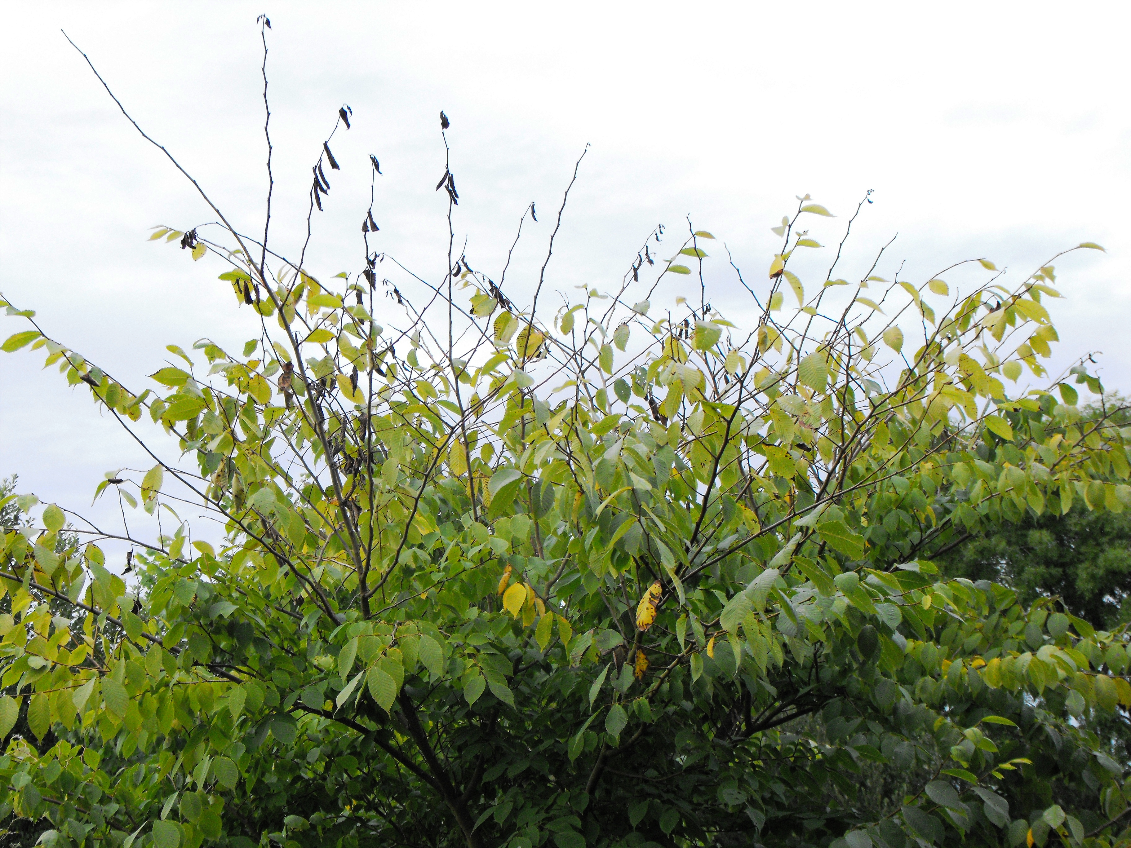 Photo of diseased David Elm, Great Fontley, England.